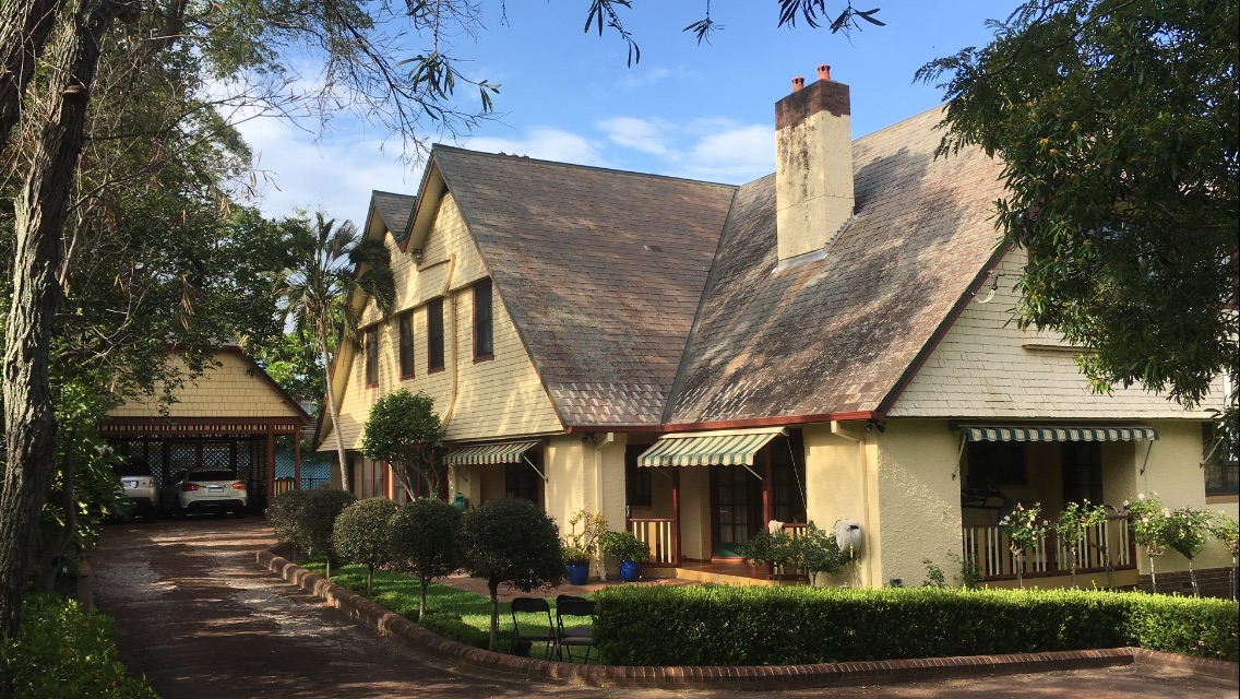 Kama a house in Llandilo Avenue Strathfield designed by Thomas Pollard Sampson